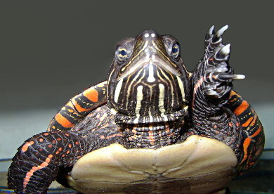 Frontal shot of painted turtle